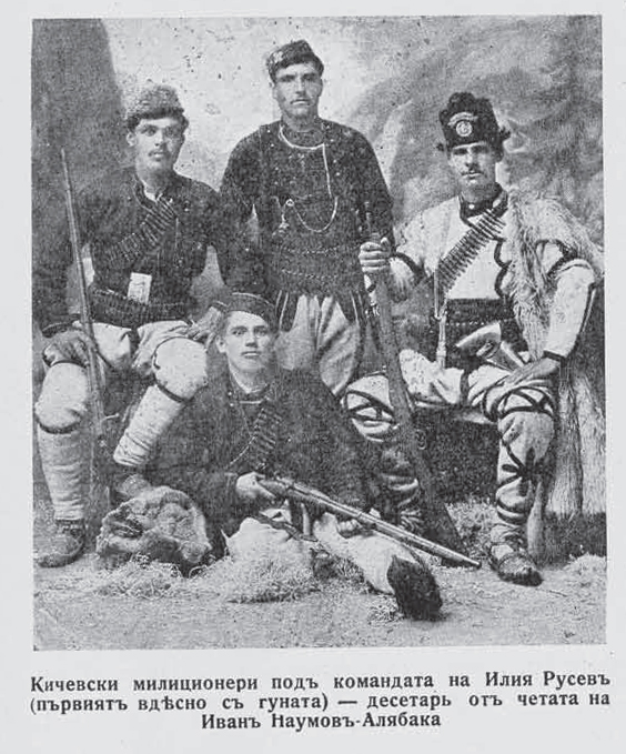 Portrait of Iliya Rusev and other komiti from IMARO cheta of Ivan Naumov Alyabaka